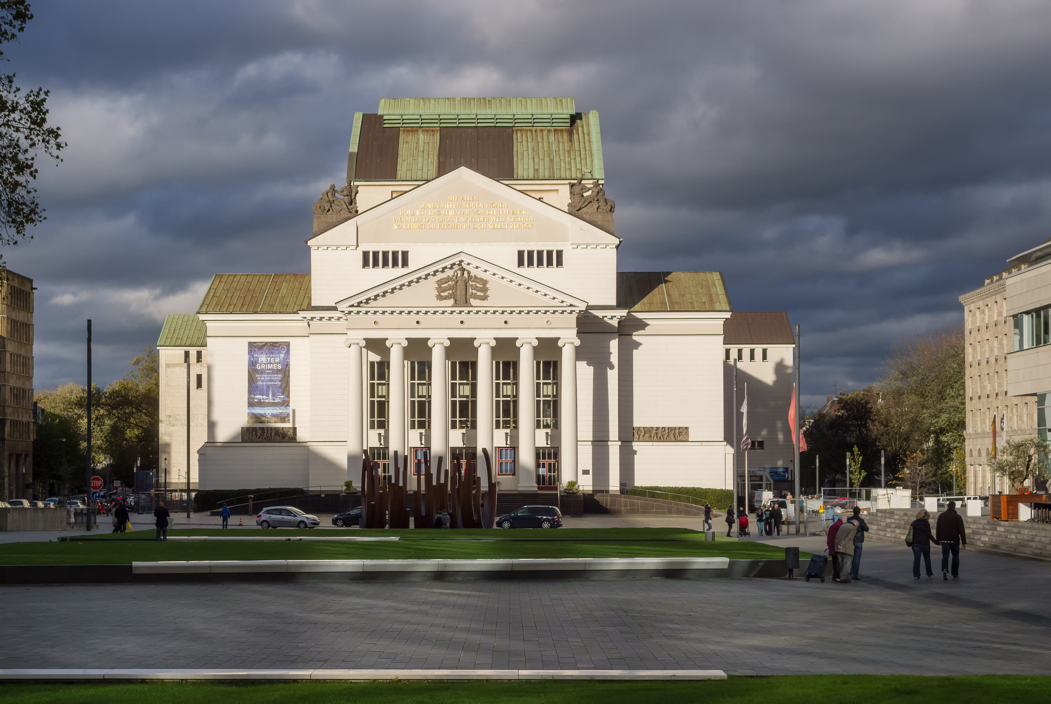 Building of Theater of Duisburg